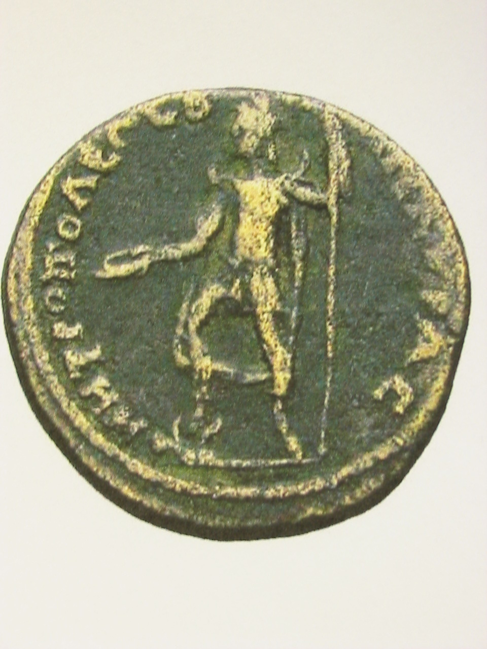 Men (deity) on the Ancyra [Turkish Ankara] coin